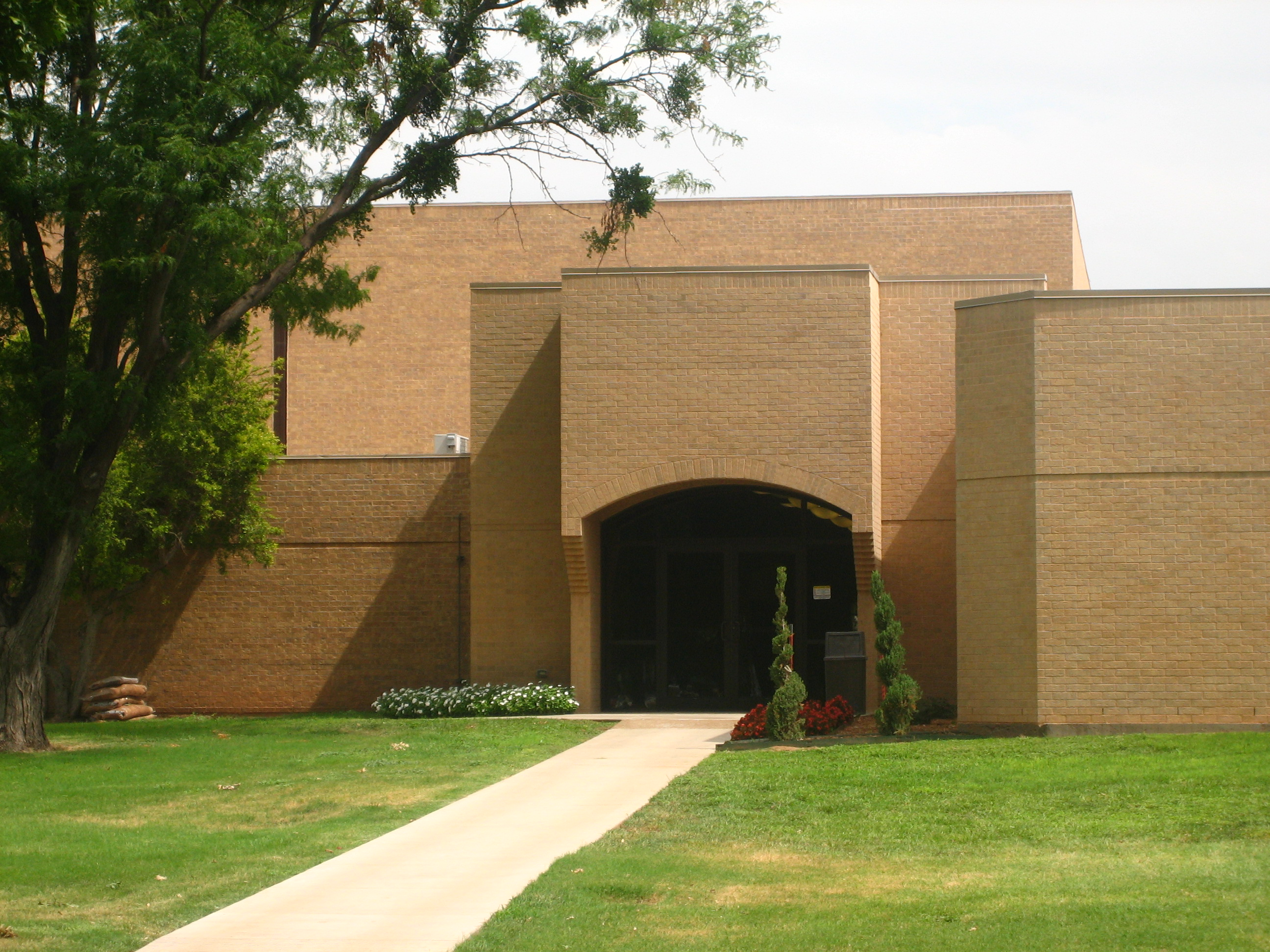 I took photo on July 16, 2008.Billy Hathorn (talk) 02:52, 24 July 2008 (UTC)